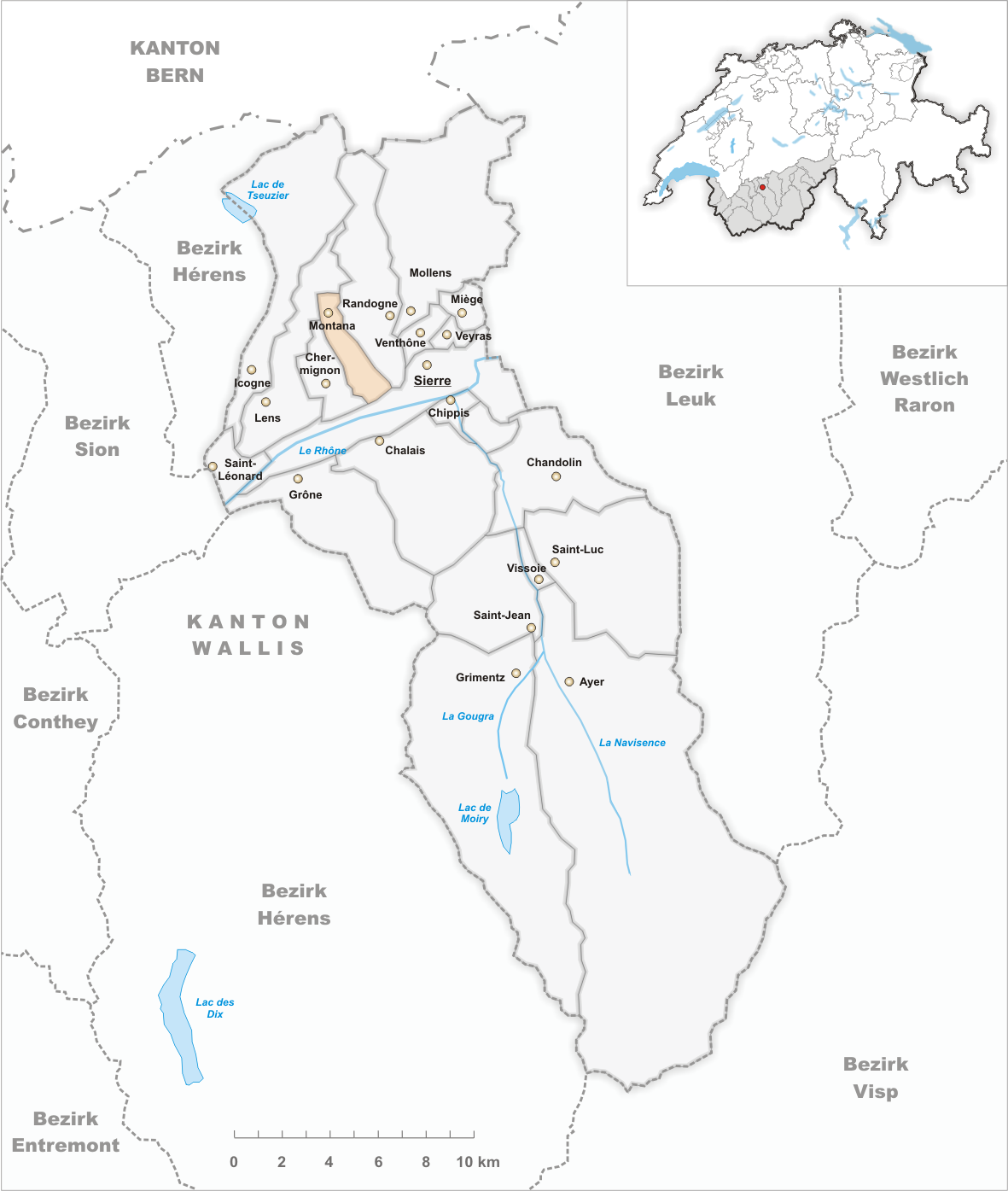 Municipality Montana